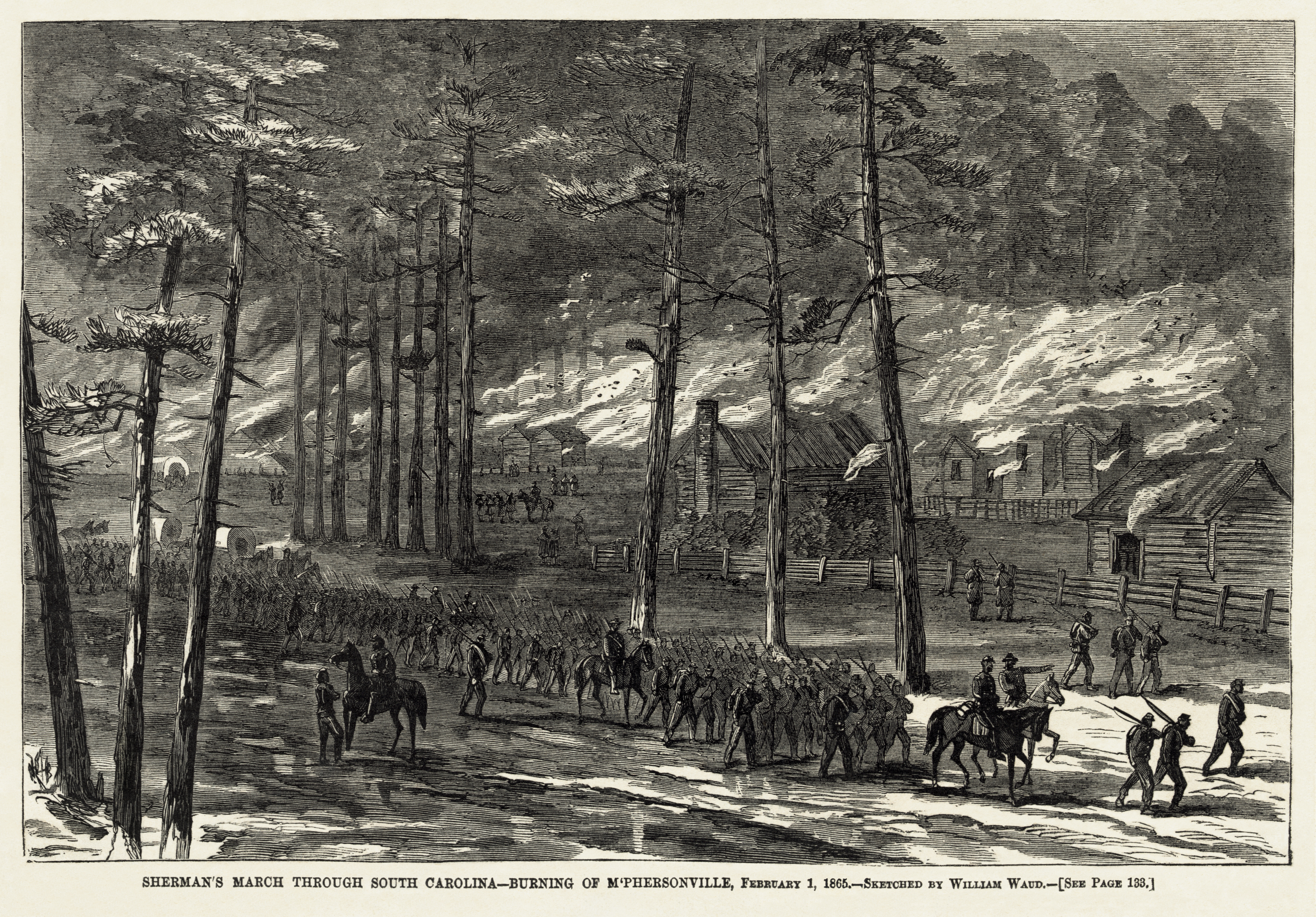 Sherman's March Through South Carolina – Burning of McPhersonville, February 1, 1865. Published in: Harper's Weekly, March 4, 1865, p. 136.